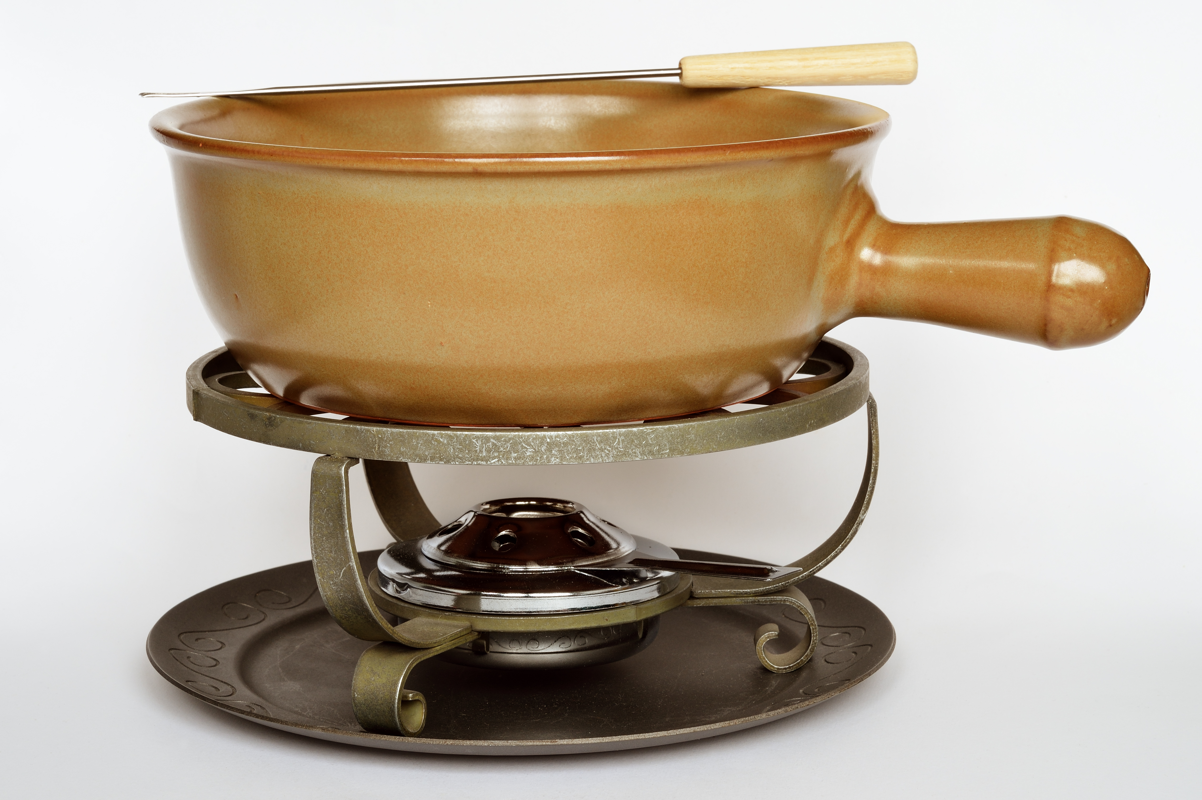 a caquelon with a portable stove